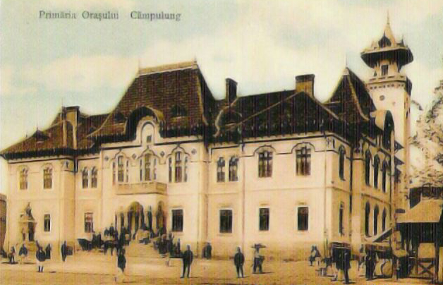 Palace of Culture in Câmpulung, the former Câmpulung City Hall during the interbelic period. The historical building was built in 1907.